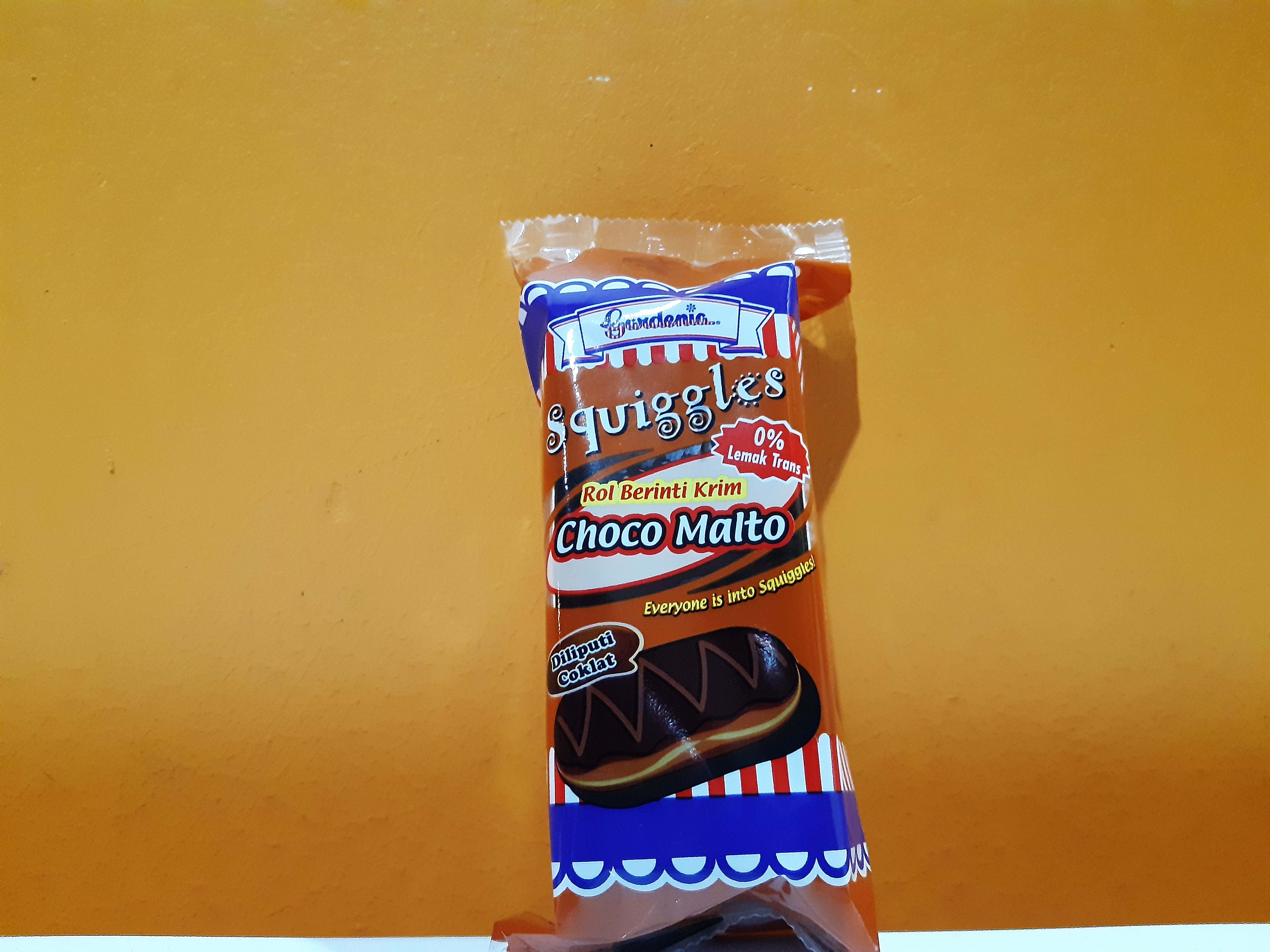 Squiggles chocolate flavour